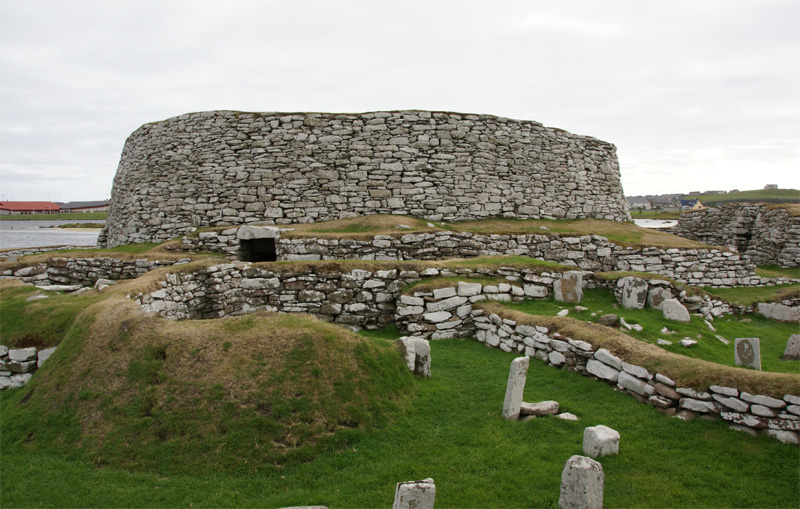 Clickimin Broch, Lerwick, Shetland, Scotland - from within settlement: broch + west side entrance